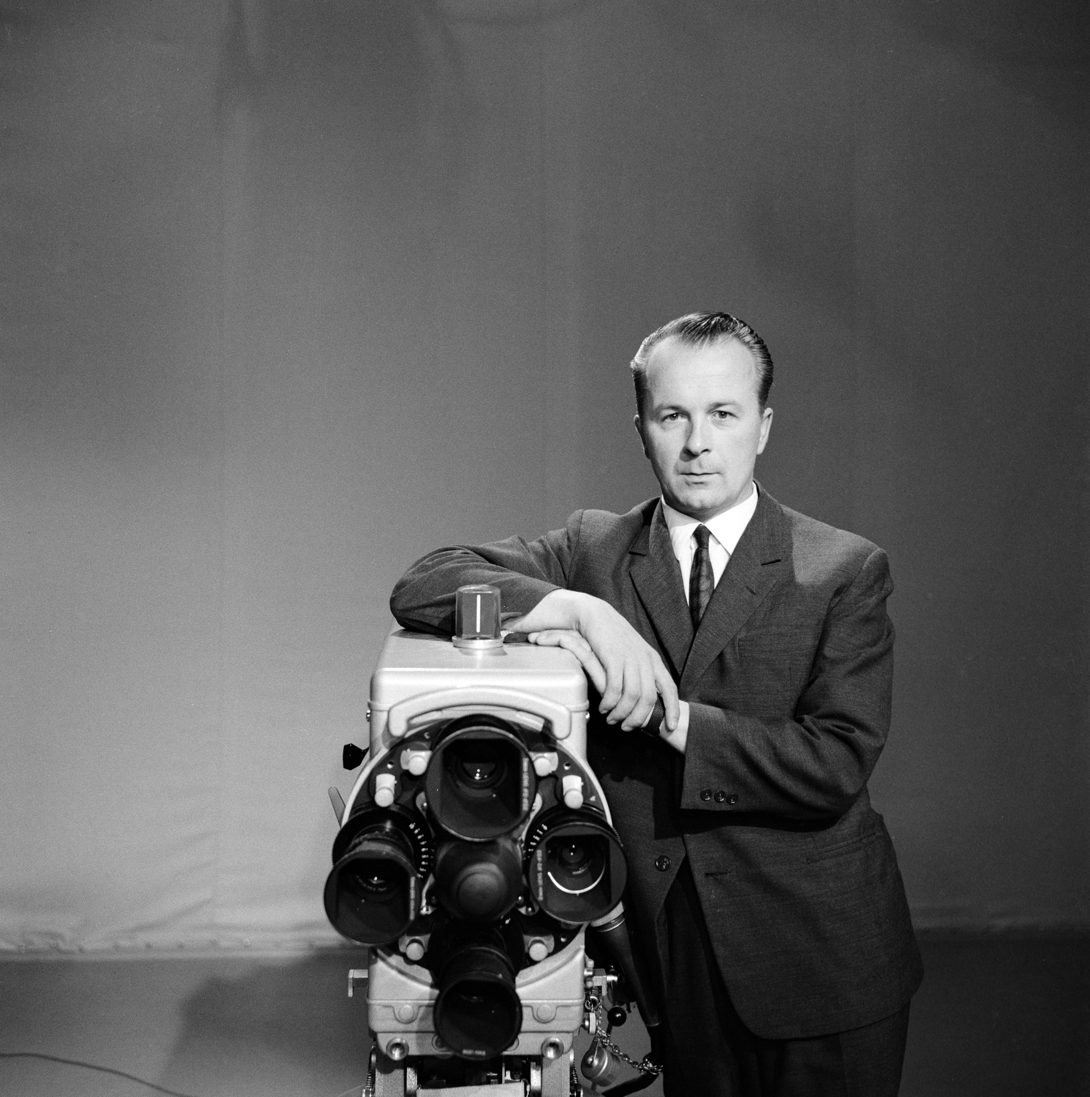 Tesvisio's journalist Jussi Suomalainen next to a television camera.